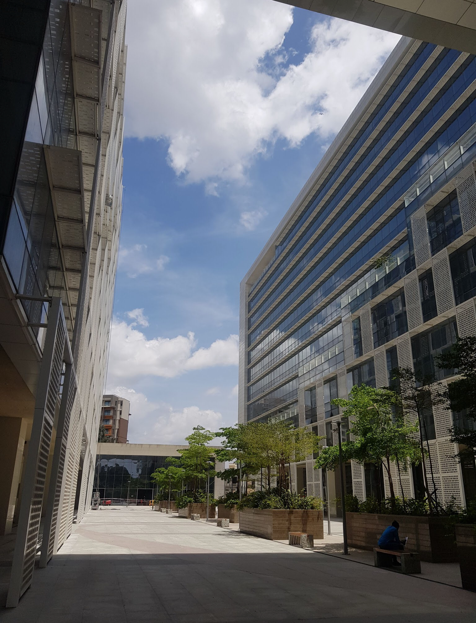 ITC Infotech at Cox Town, Bangalore, Karnataka